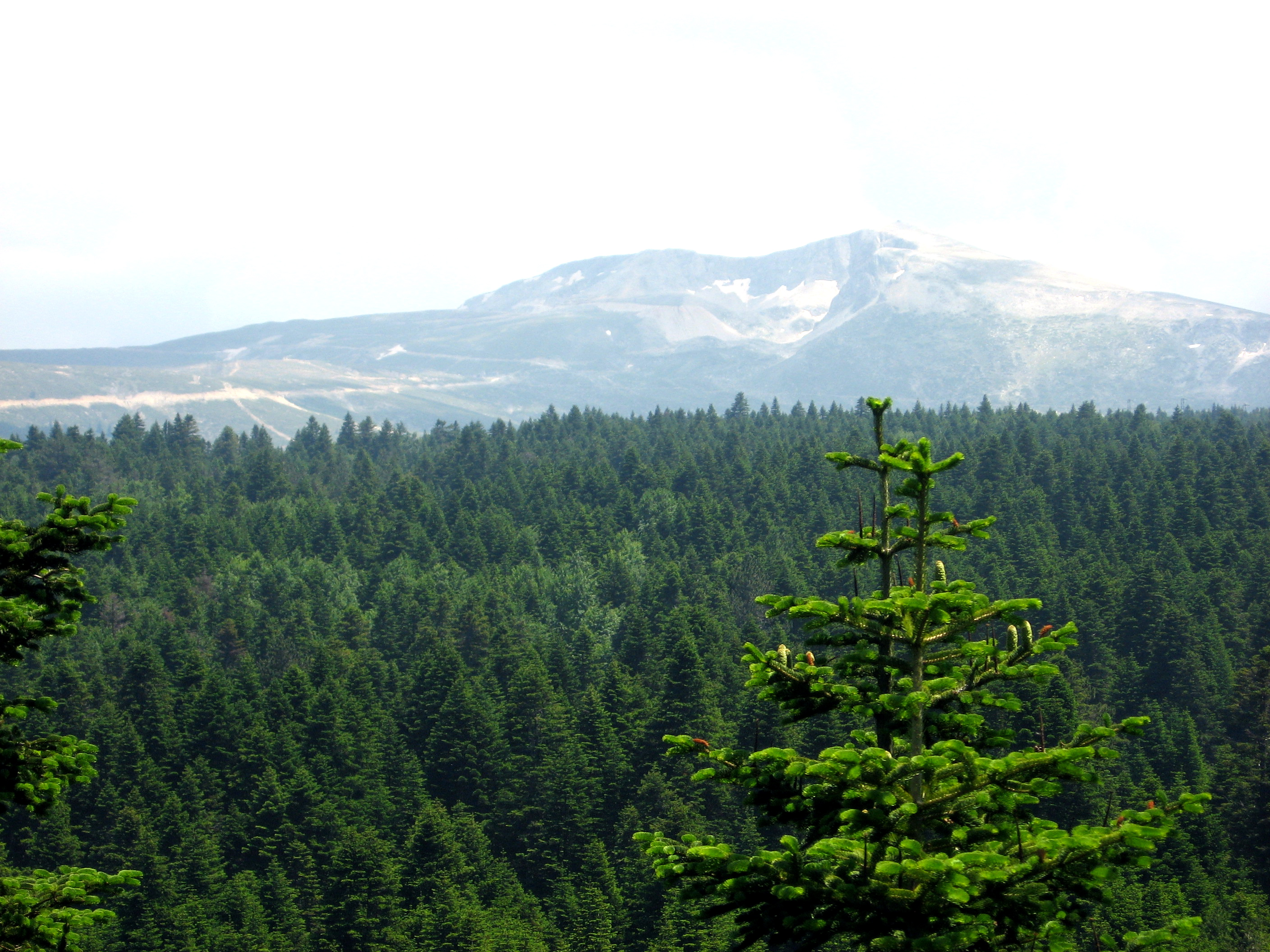 Abies nordmanniana subsp. bornmuelleriana forest, Uludağ, Turkey.